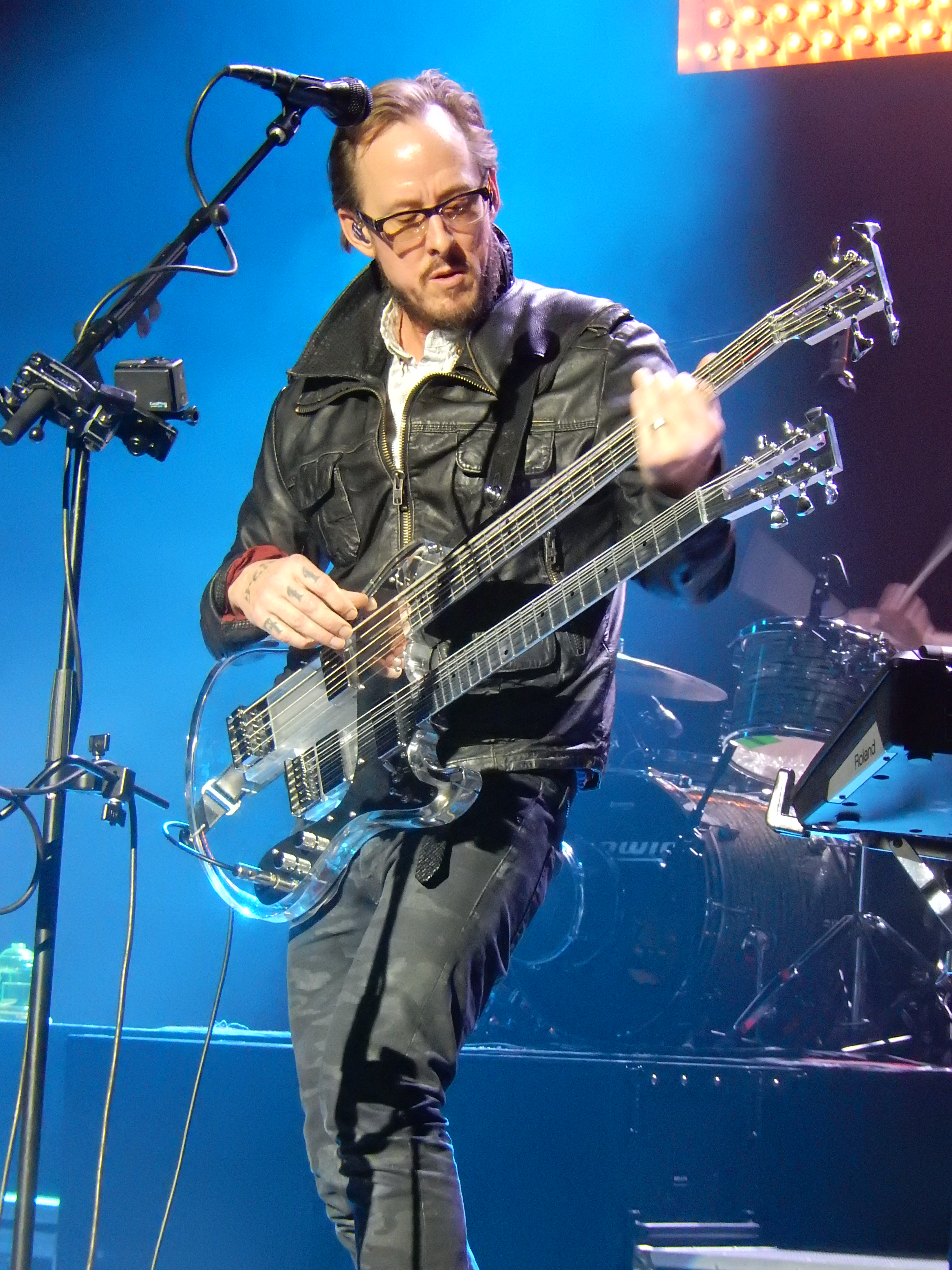 Weezer, Brixton Academy, London